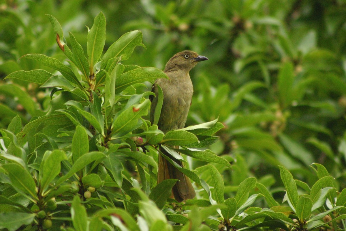 Sombre Greenbul, Andropadus importunus, Port Elizabeth, South Africa